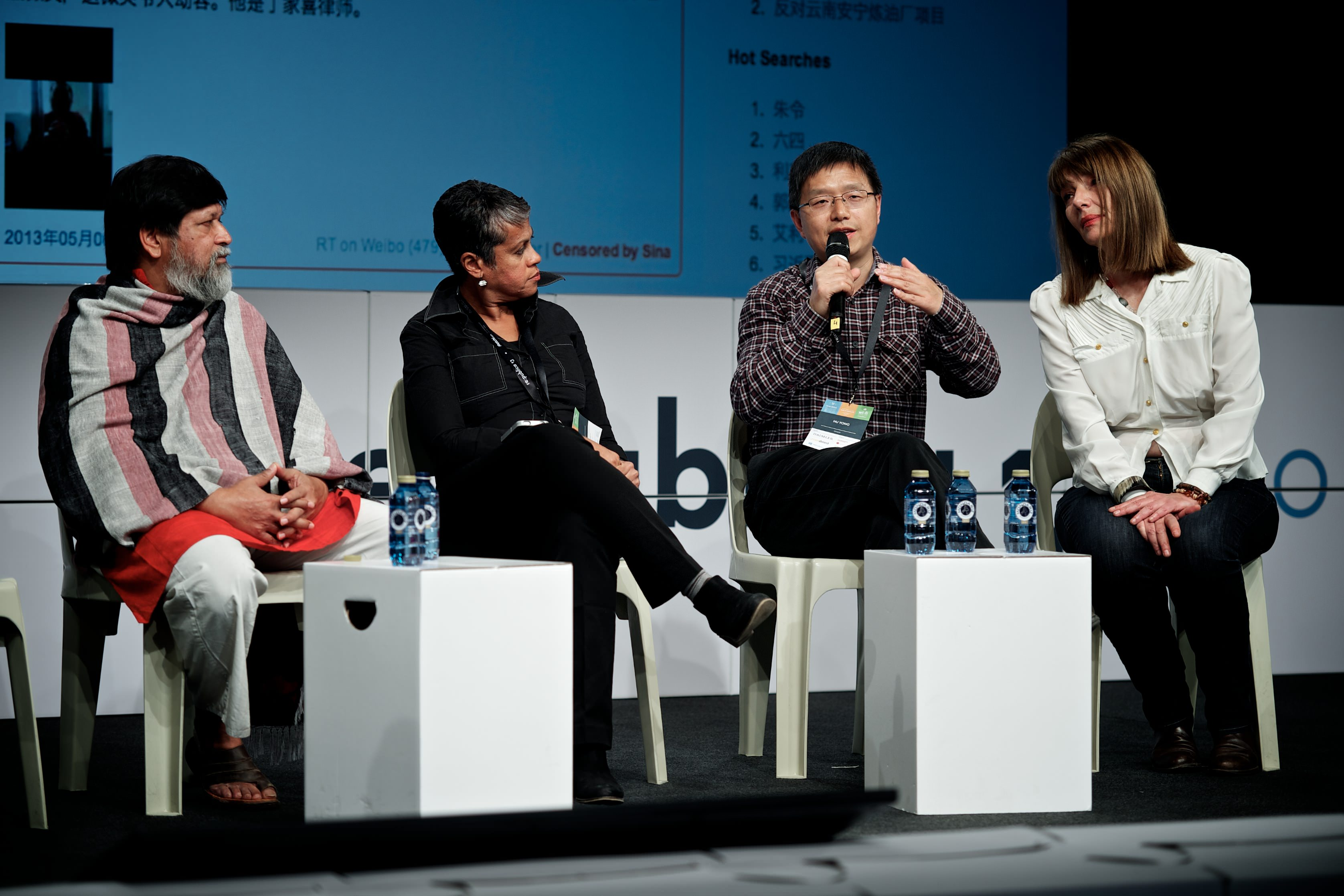 Speakers: Shahidul Alam, Georgia Popplewell, Hu Yong, Claire Ulrich Foto: (cc) Gregor Fischer I re:publica 2013